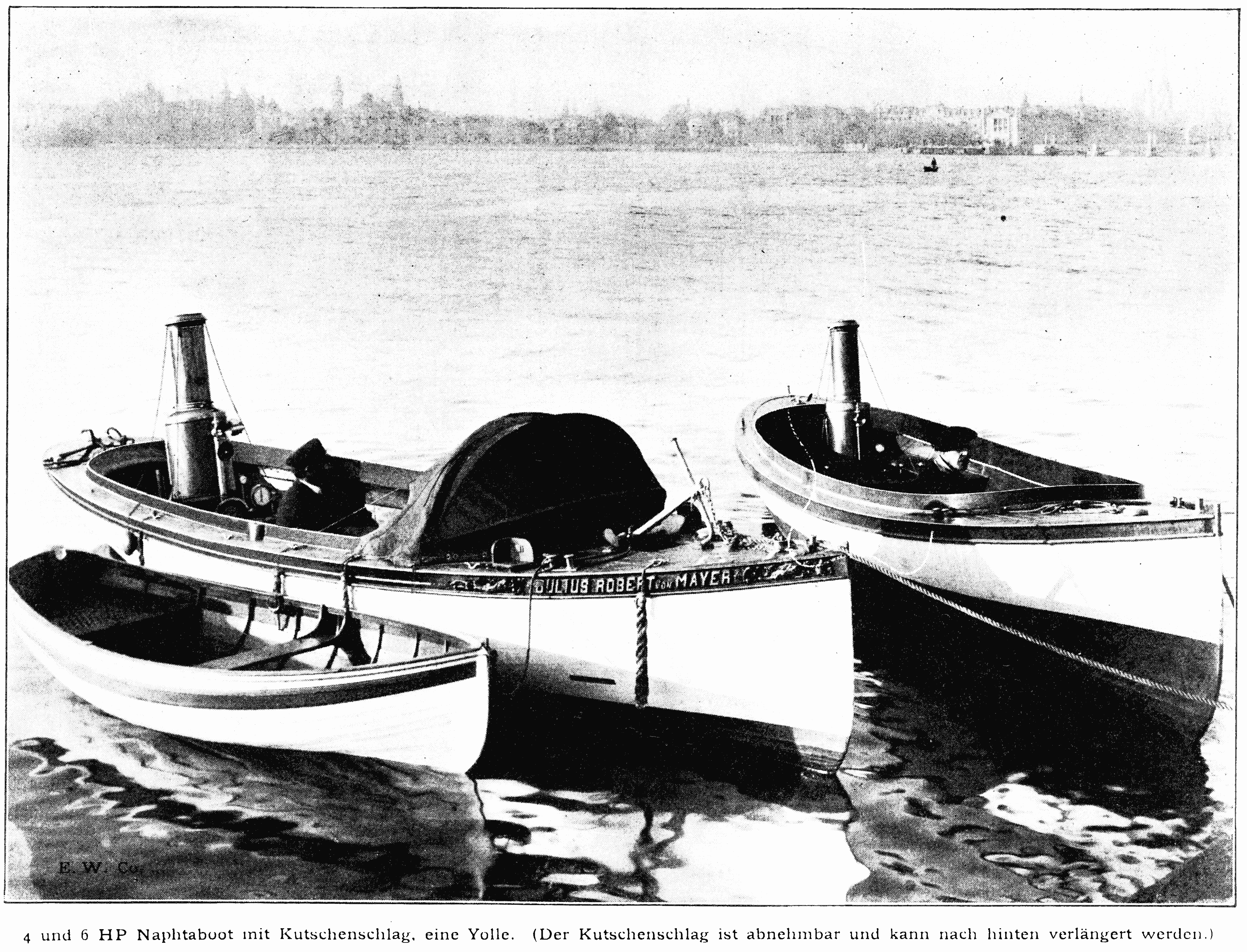 4 and 6 hp Naphta launches with hood and a Yolle - dinghy. (The hood can be removed or extended fully towards the aft).